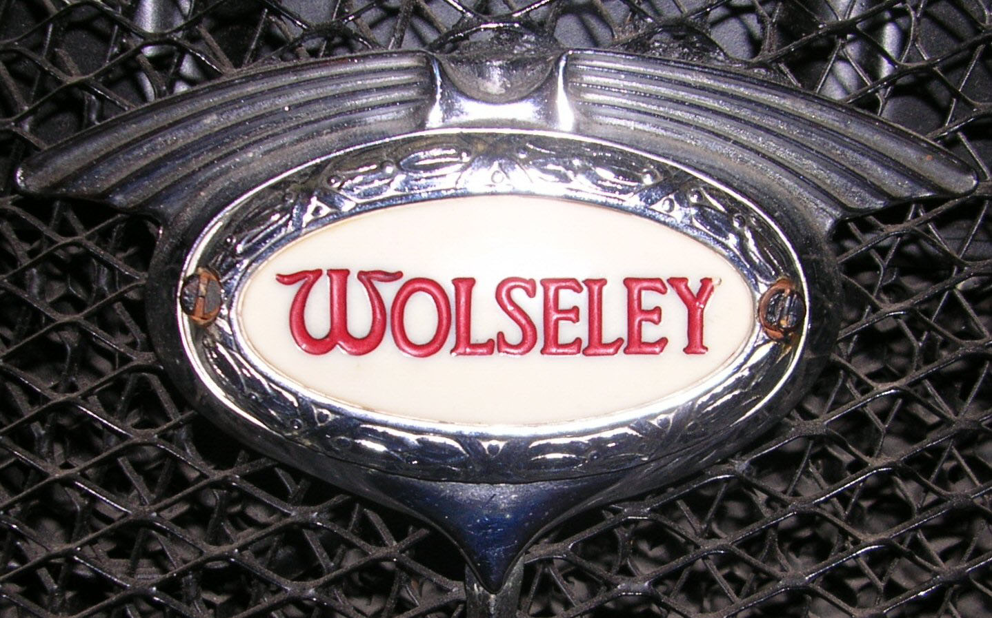 A Wolseley illuminating radiator badge. Photographed on a 1934 Wolseley Nine car.